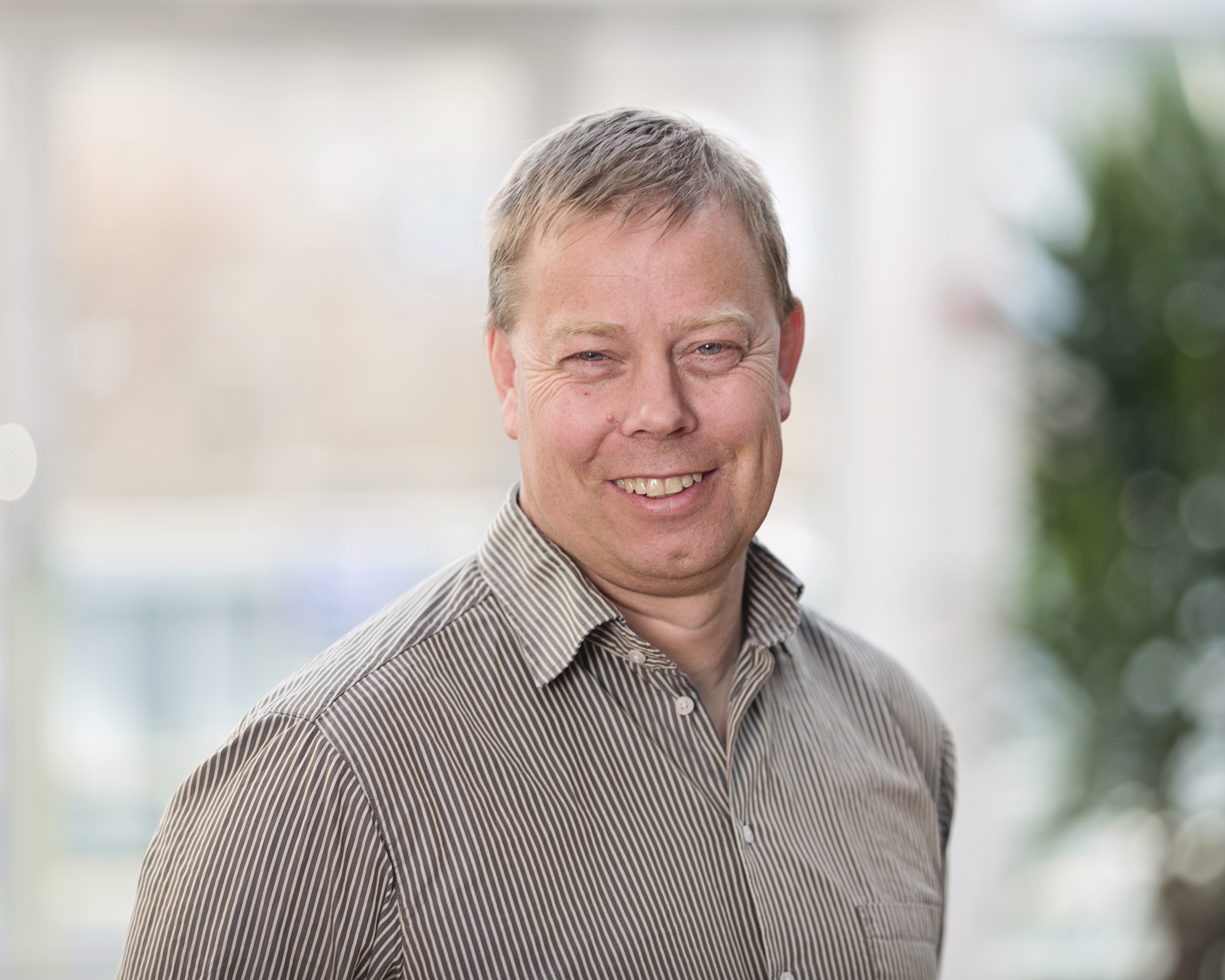 The Norwegian economist, professor at NTNU Trondheim, Torberg Falch